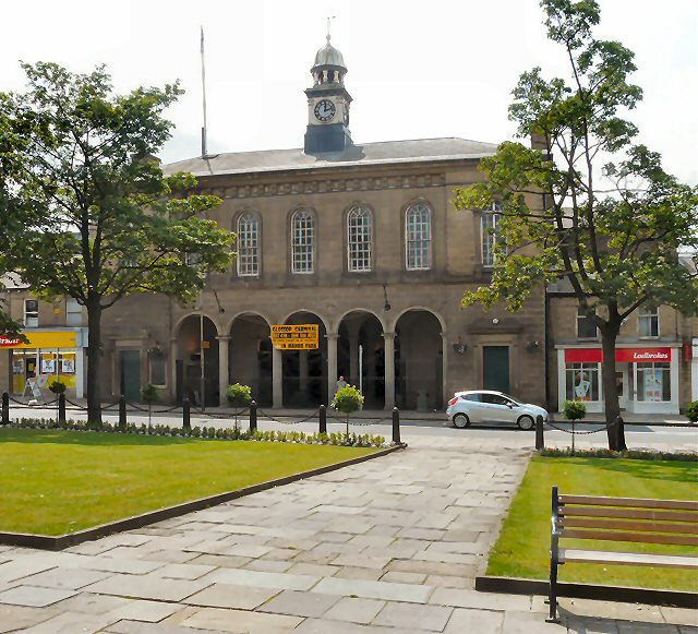 Glossop Town Hall From Norfolk Square. The Town Hall is topped by a distinctive clock tower. Its arcaded and colonnaded ground floor is now used as a small shopping precinct.